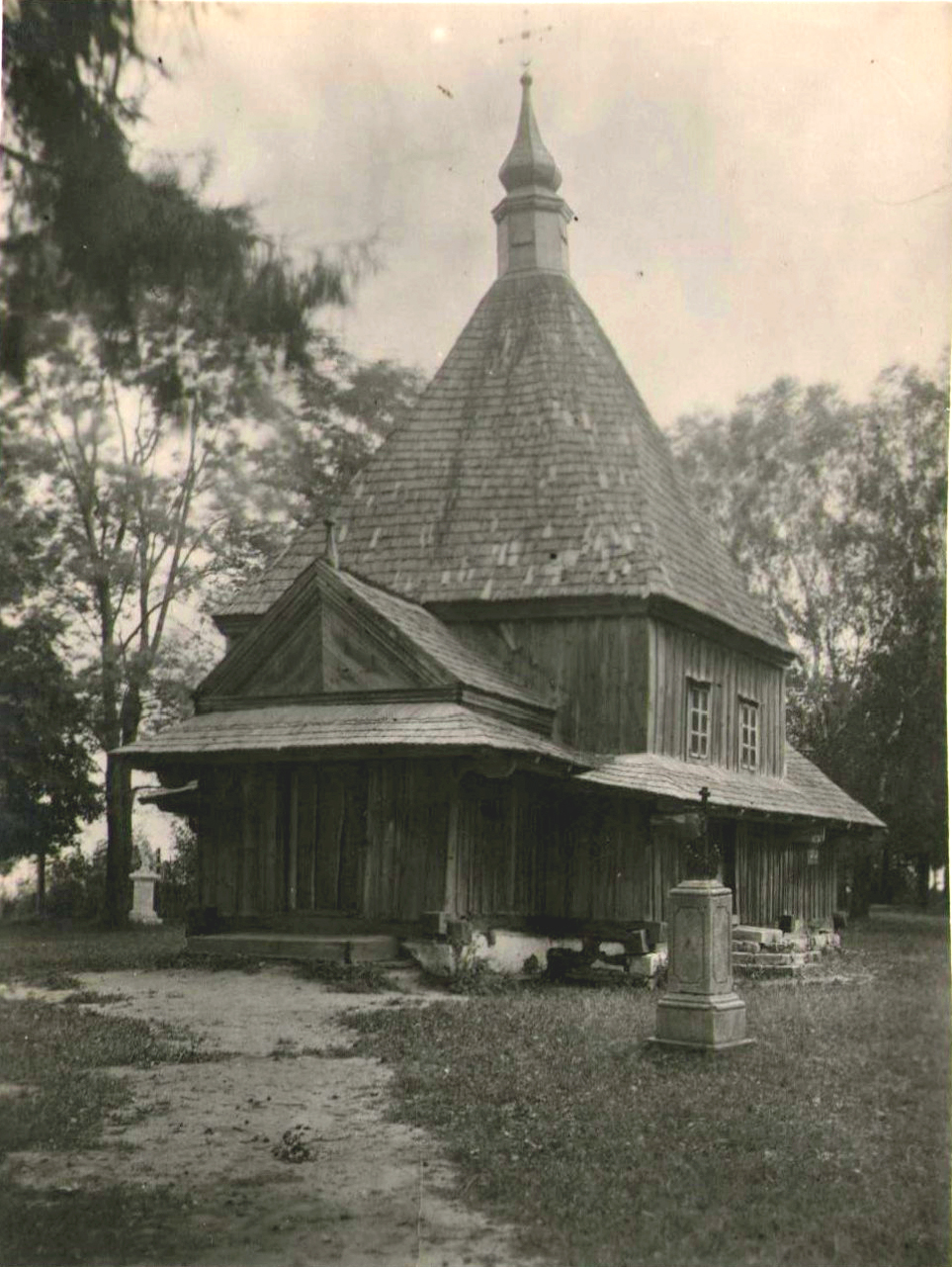 Orthodox Church in Wereszyn (Vereshyn), (destroyed in 1938)